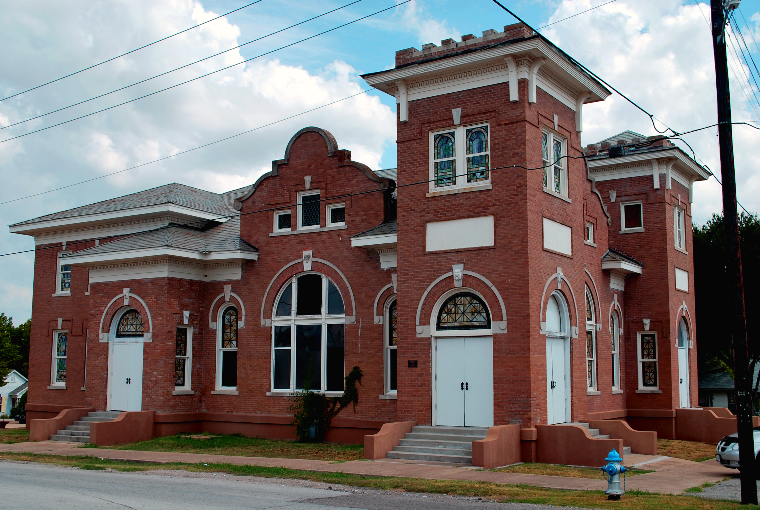 First Methodist Church of Rockwall, 303 E. Rusk, Rockwall, Rockwall County, Texas.